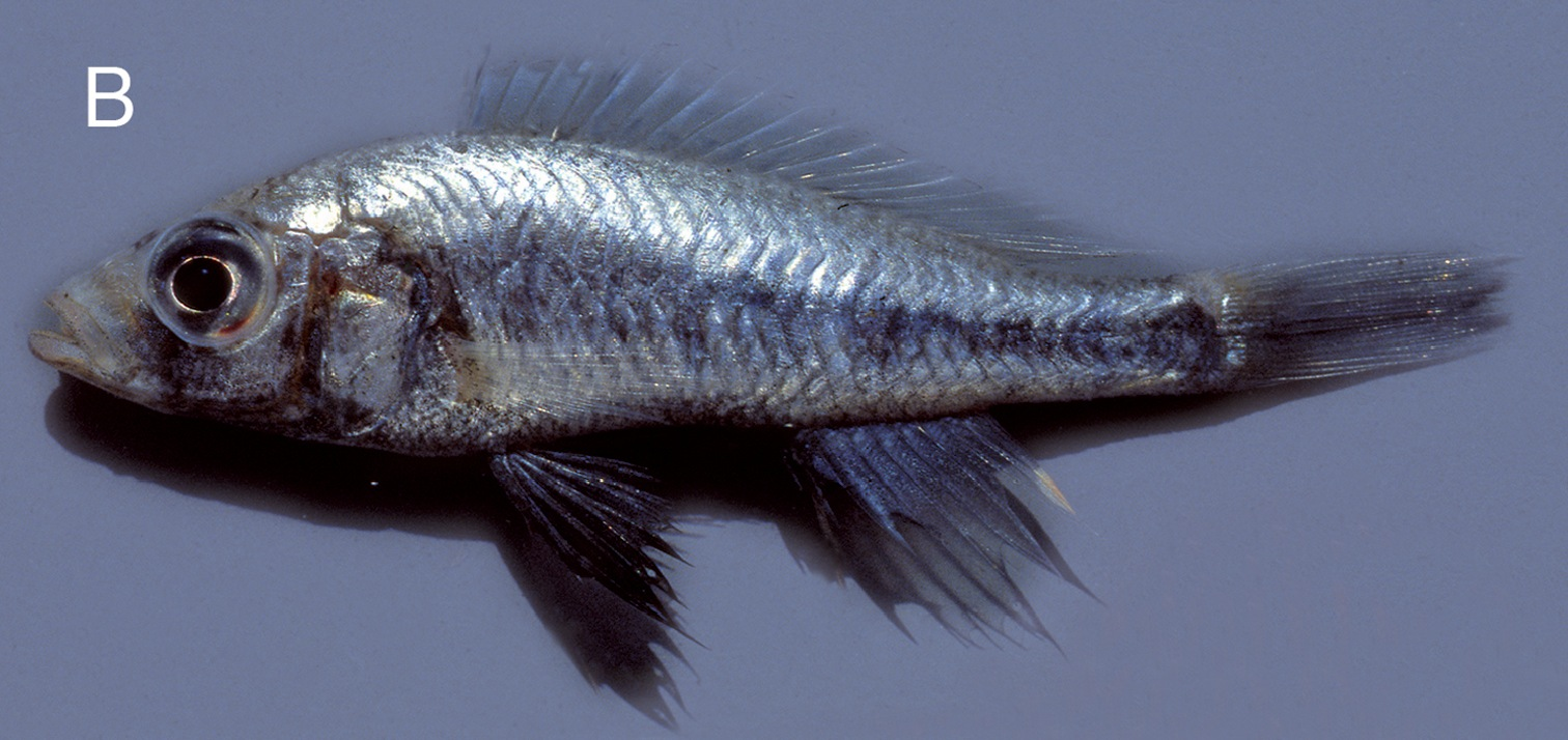 Live colours of Haplochromis goldschmidti: sexually active ♂, 57.5 mm SL (paratype, RMNH.PISC.83575).